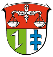 Coat of Arms of Echzell